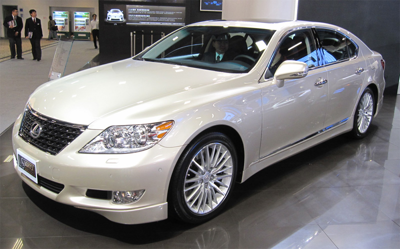 LS Sport Vertex edition